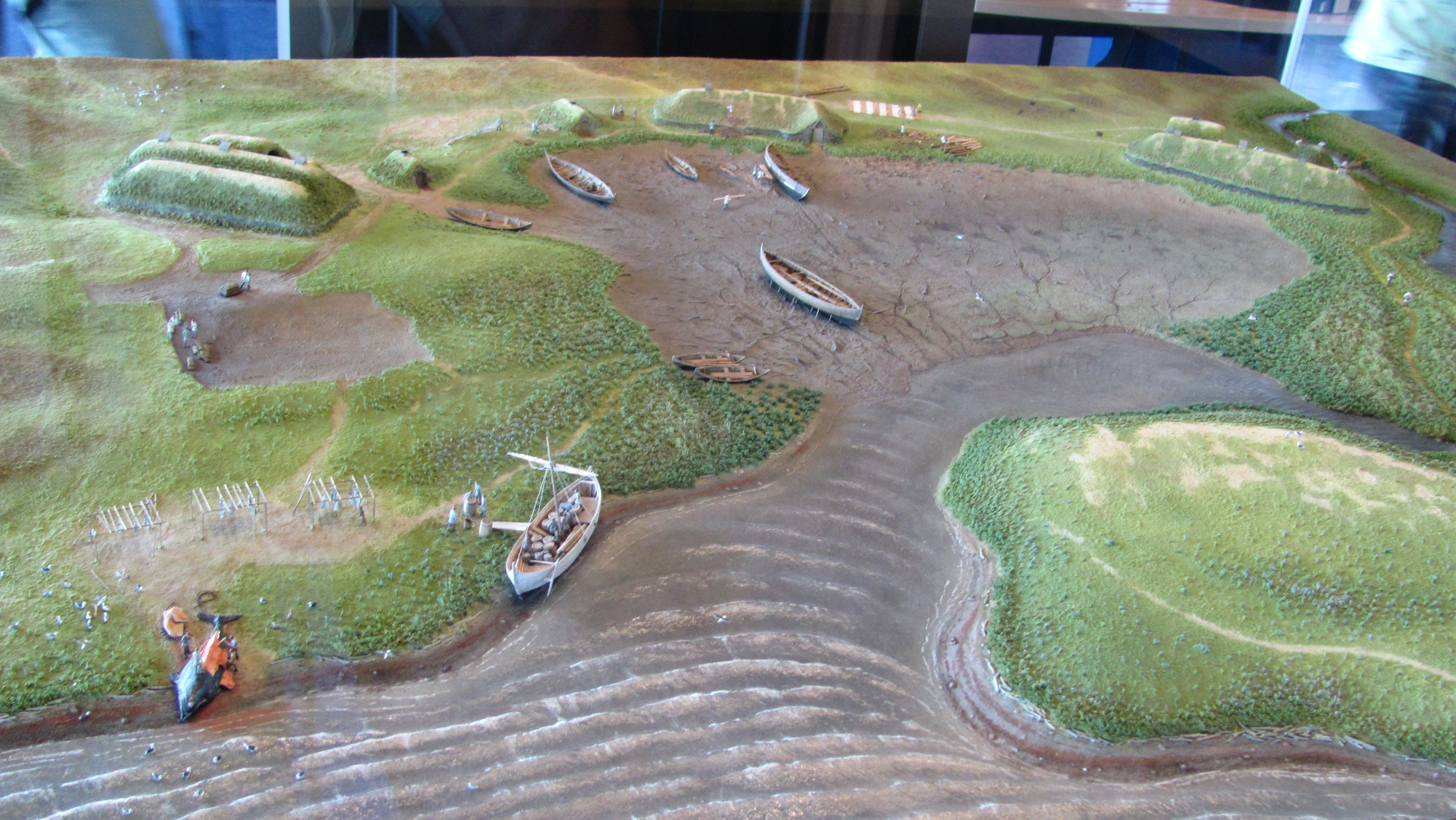 L'Anse Aux Meadows: Model of the Viking settlement in the museum [name and location of museum required].